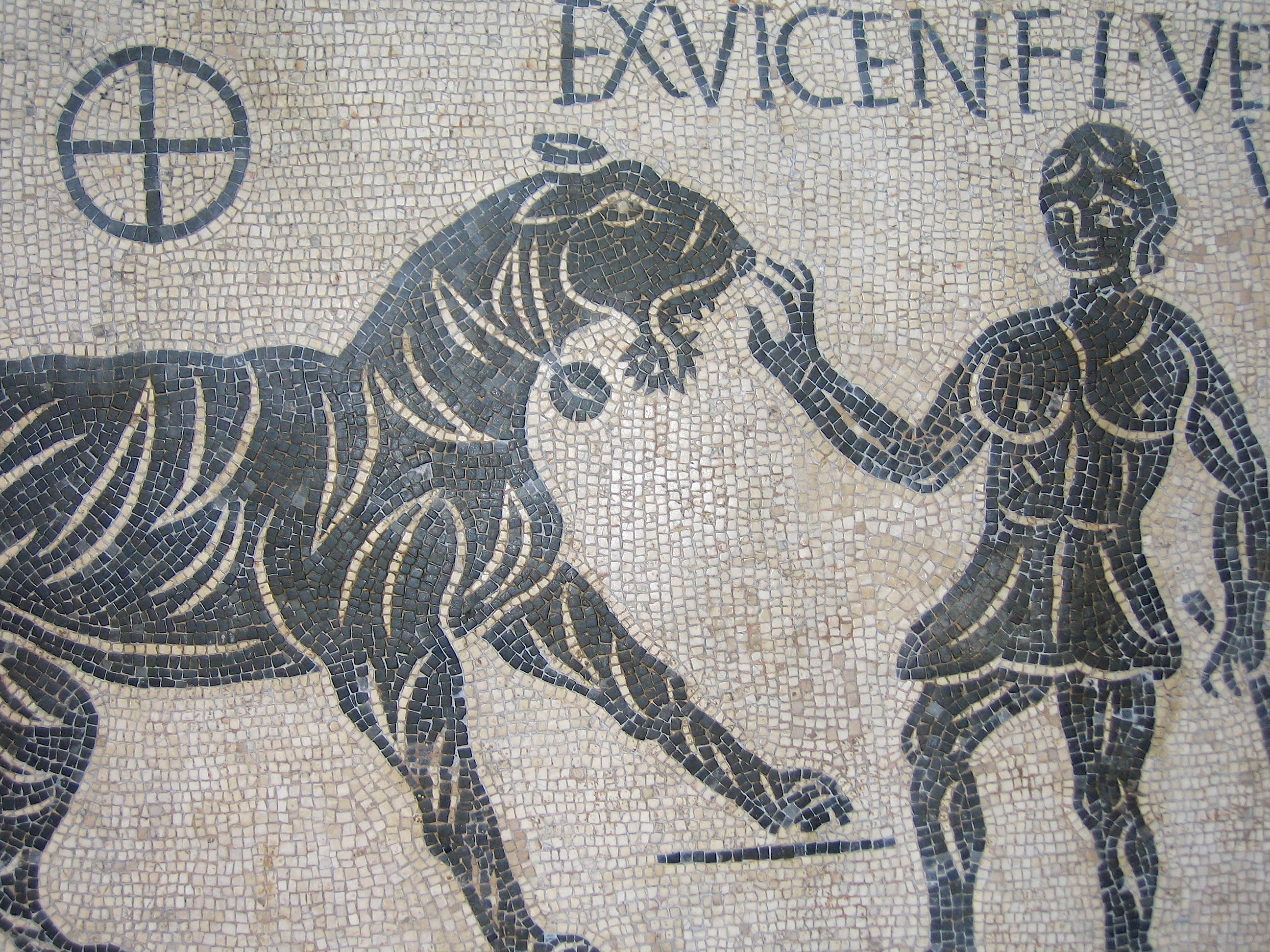 Black and white mosaic detail from the Colosseum in Rome.